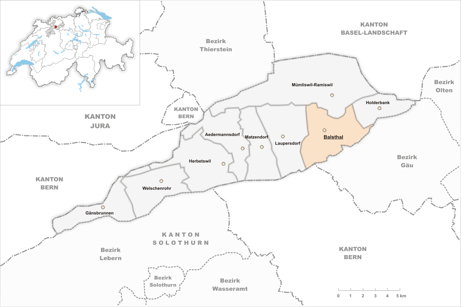 Municipality Balsthal